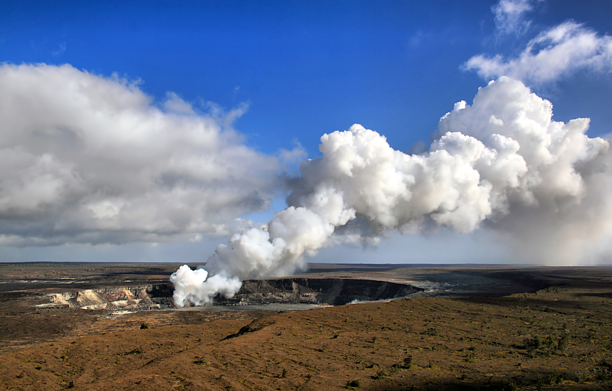 Sulfur dioxide emissions from the Halemaʻumaʻu crater, a pit crater located within the much larger summit caldera of Kīlauea, in Hawaii Volcanoes National Park, on the Island of Hawaiʻi, in the US State of Hawaii